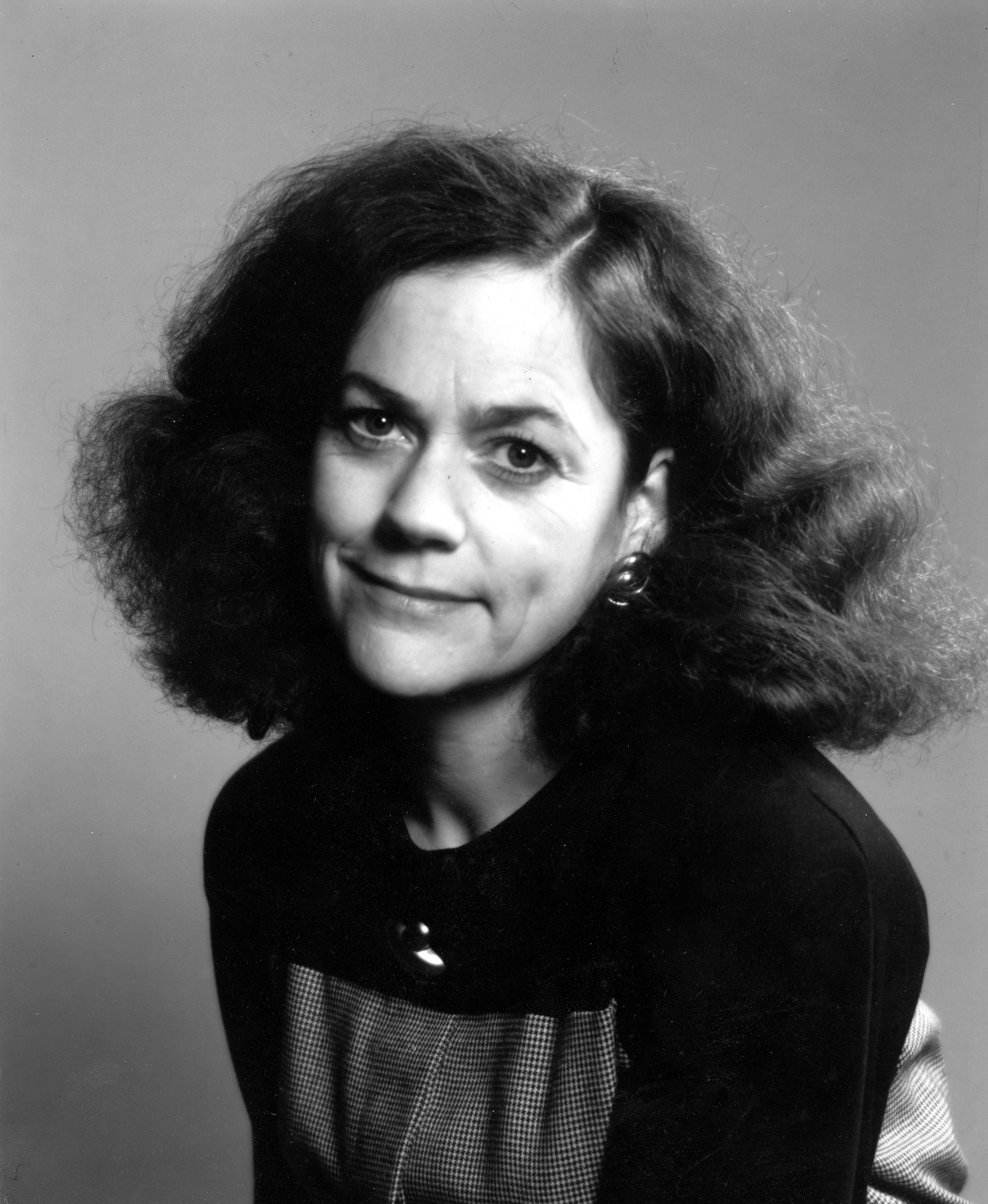 Photo of Maria Leavey, 1954-2006